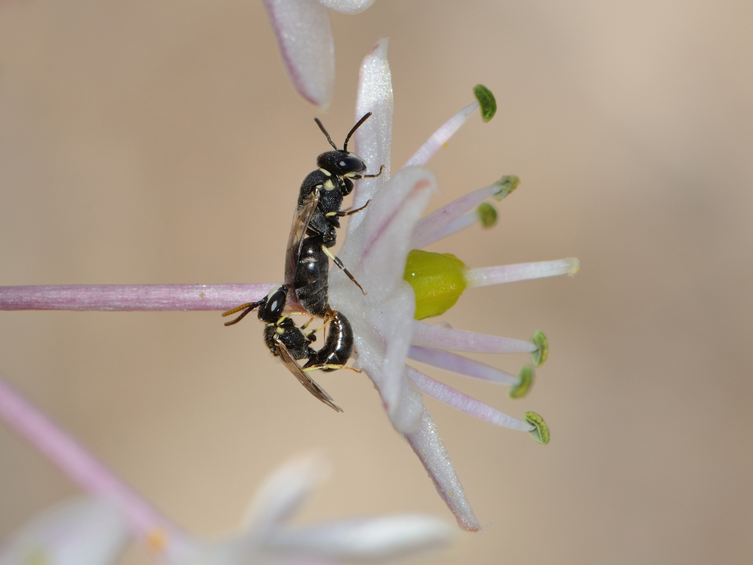 Hylaeus longimaculus (Alfken, 1936), copulation on a Drimia maritima flower, Sha'ar Poleg reserve, Israel, September 16, 2013.